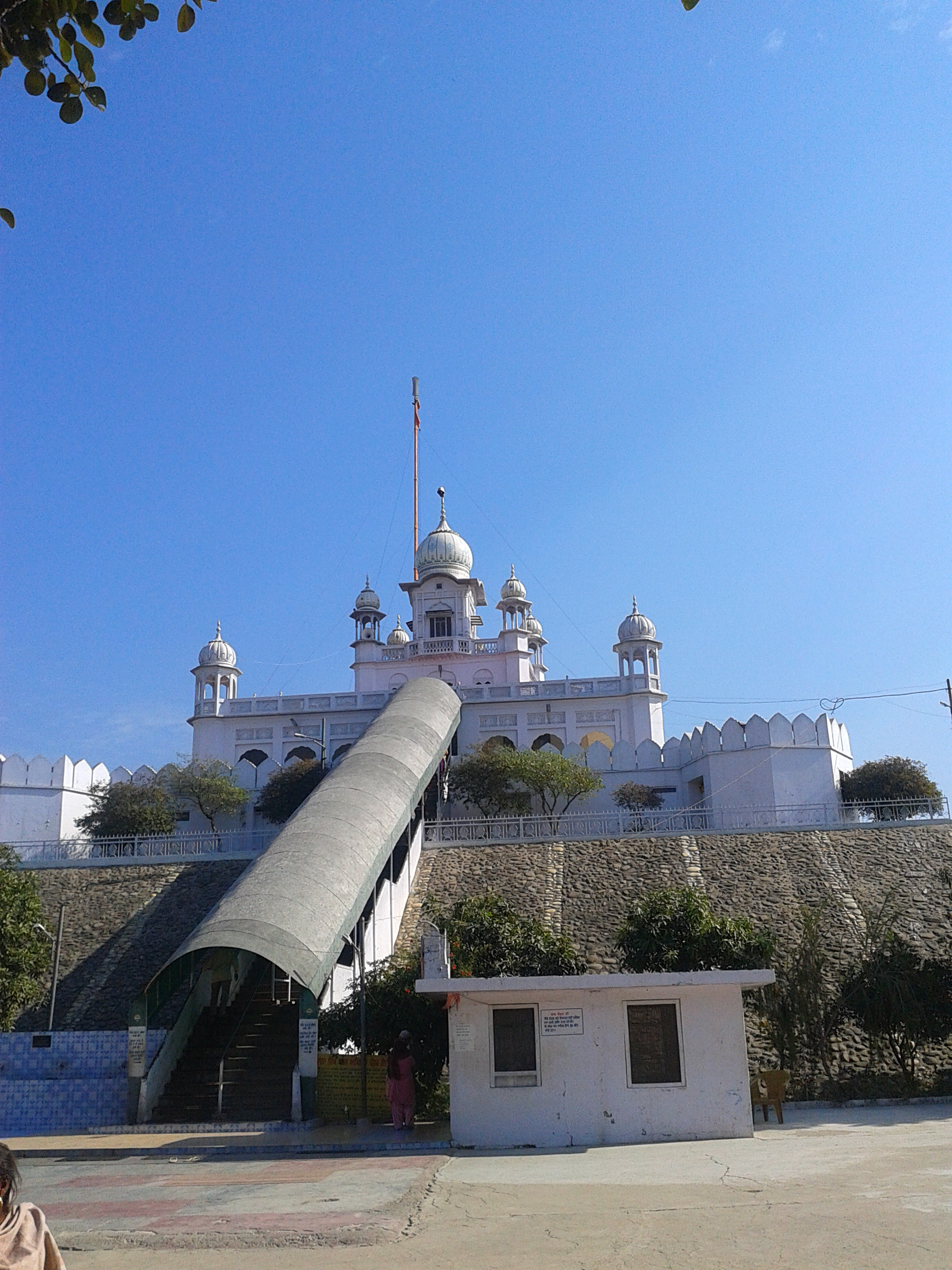 i wikiuser:SHEMAROO aka SIVENDER SINGH have taken and uploaded for wikipedia.this is about Parivar Vichora gurudwara in Roopnagar district. Shemaroo (talk) 13:08, 15 December 2012 (UTC)